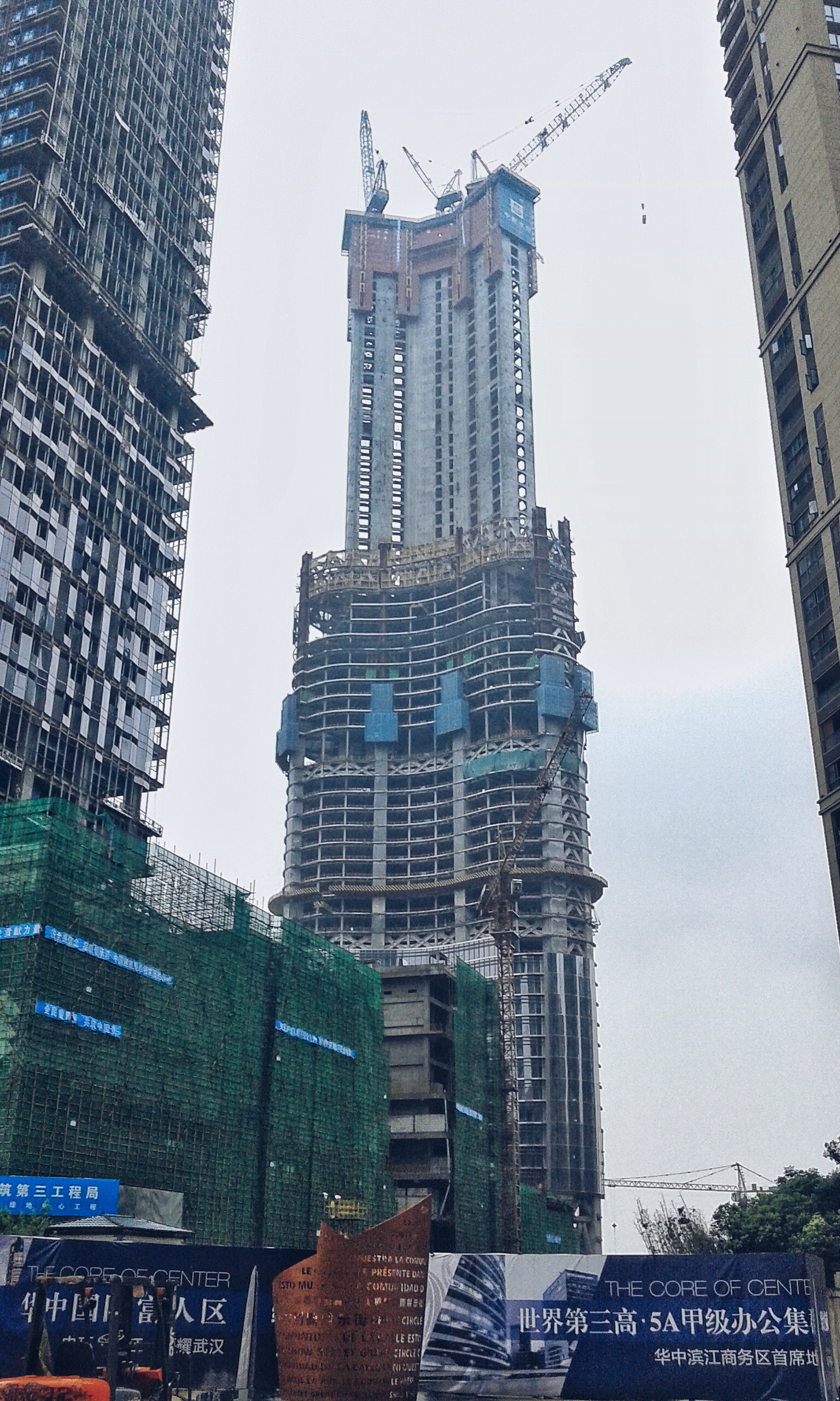 Wuhan Greenland Center under construction.